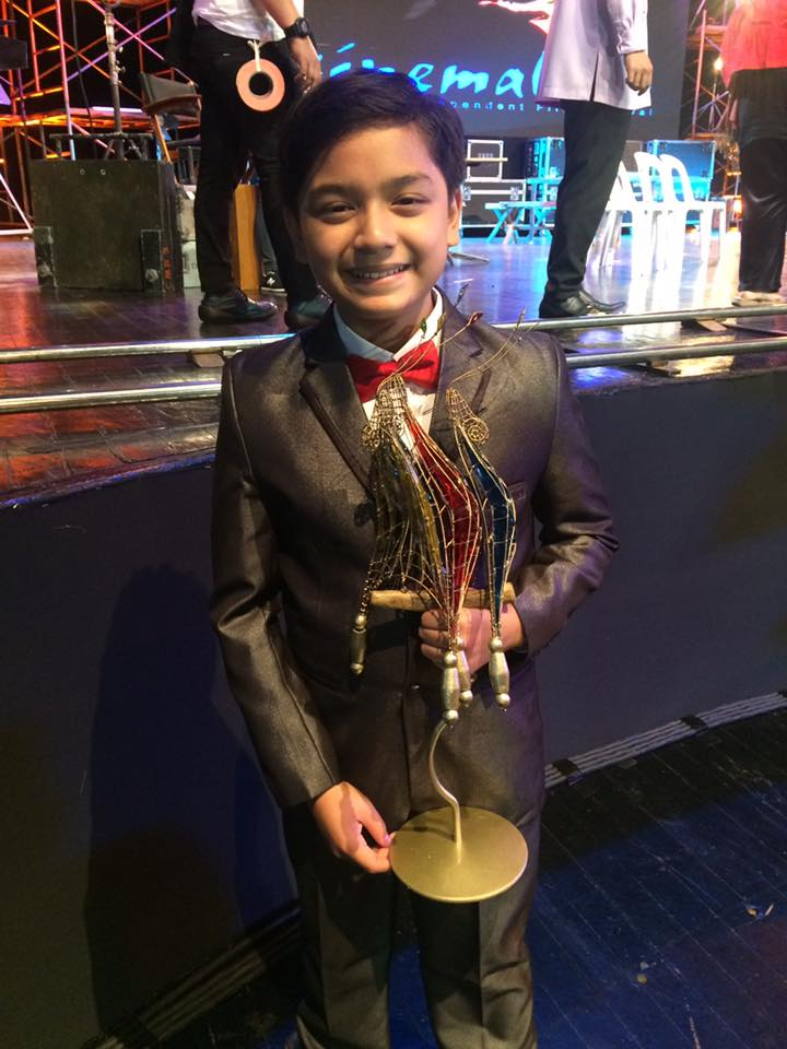 Noel Comia Jr. wins Cinemalaya award for Best Actor (Kiko Boksingero)